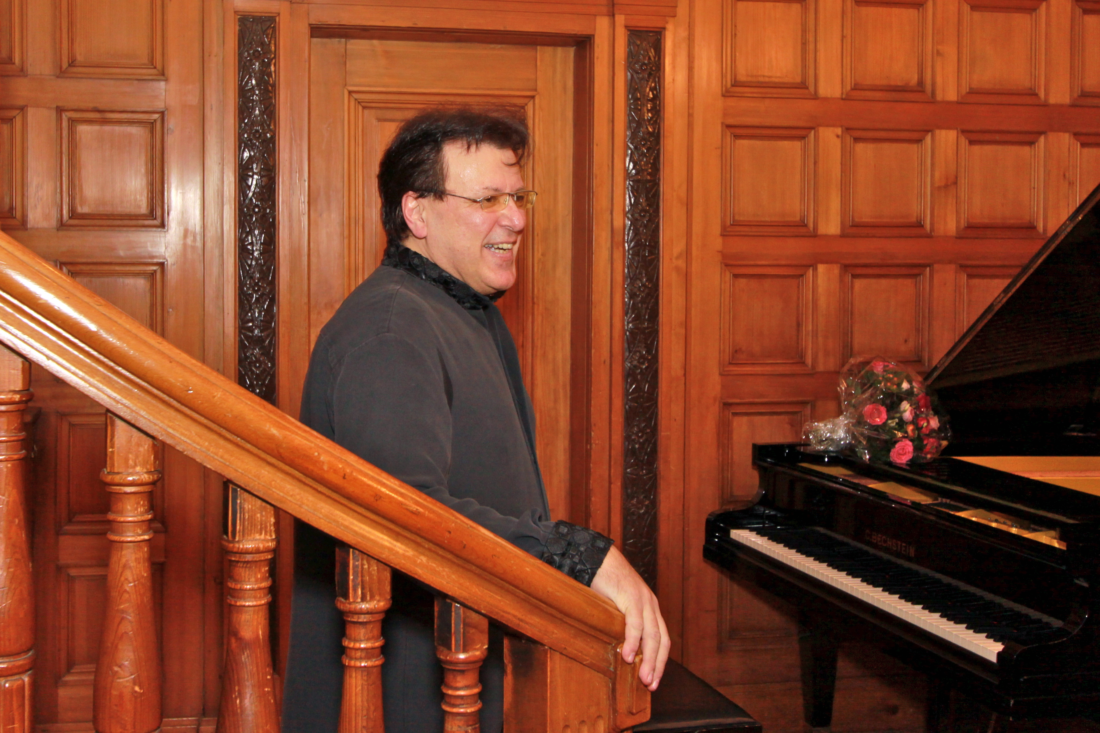 Andrei Gavrilov, Russian pianist.